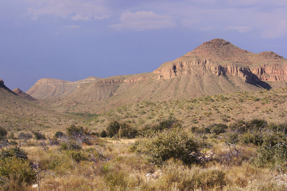 Chihuahua Desert near Sierra Blanca, Texas.